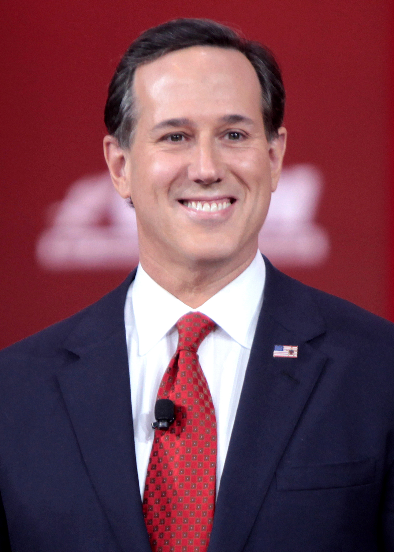 Rick Santorum speaking at CPAC 2015 in Washington, DC.